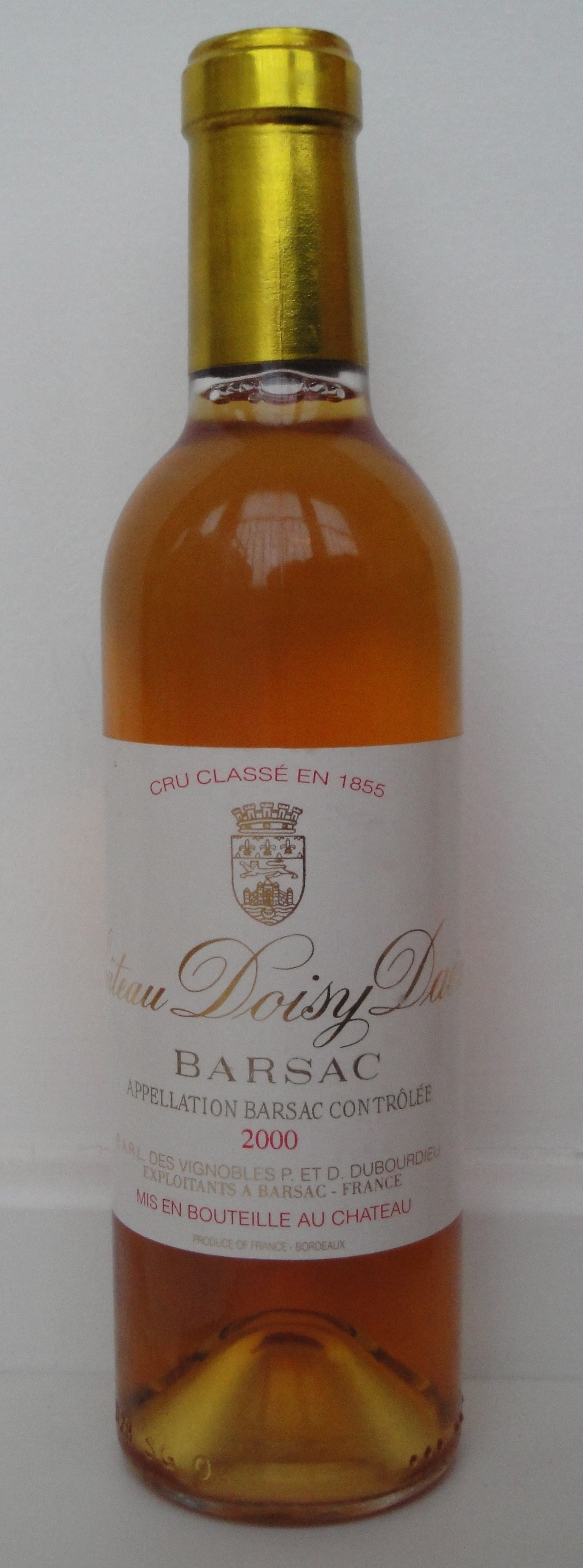 Half bottle of 2000 Château Doisy Daëne, a wine from Barsac (Sauternes) in Bordeaux, classified as a Second Growth in the 1855 Bordeaux classification.